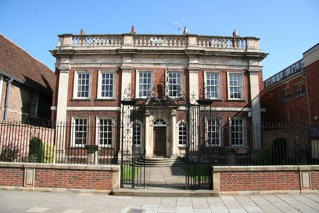 Fydell House. Described by Pevsner as "undoubtedly the grandest house in town", built in 1726 for William Fydell, thought to be by William Sands of Spalding. Now used for a variety of community functions